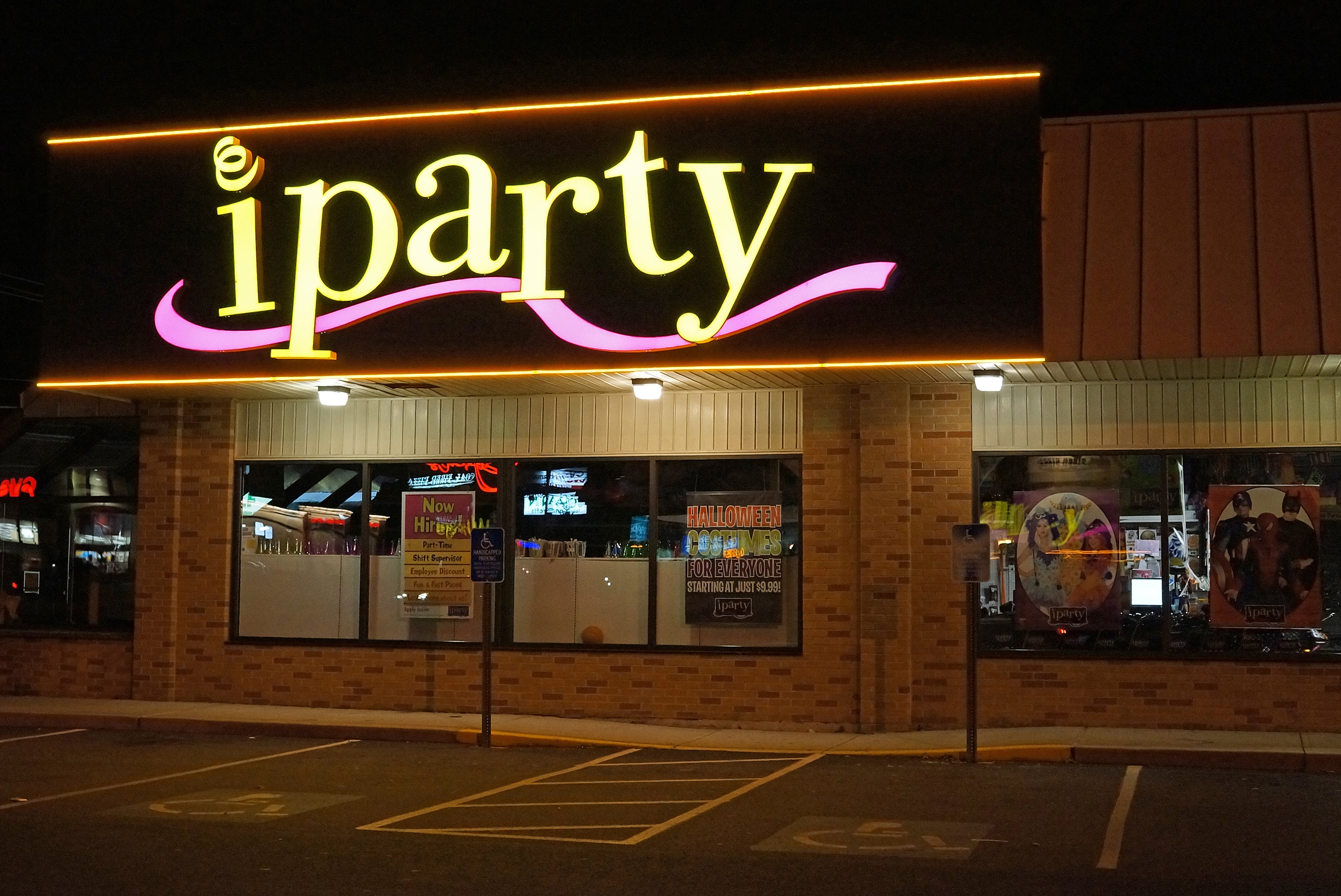 Iparty store Rt. 1, Saugus, Massachusetts USA. Night view.